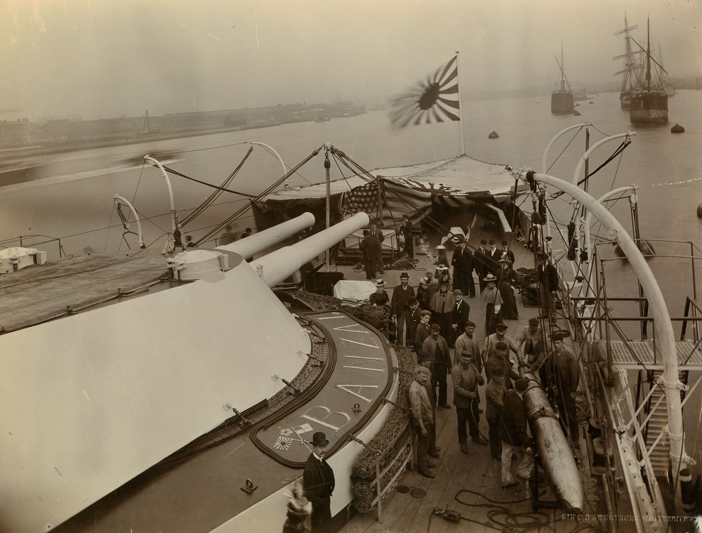 Photo of a deck of the Japanese battleship Japanese battleship Yashima at Jarrow